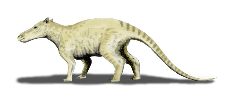 Ichthyolestes pinfoldi, a pakicetid from the Early Eocene of Pakistan, pencil drawing, digital coloring